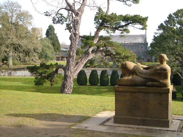 Dartington Hall Gardens. Looking north-east past Henry Moore's "Memorial Figure" (1946) across the tiltyard with its "twelve apostles" (yew trees) to the C14 Hall.